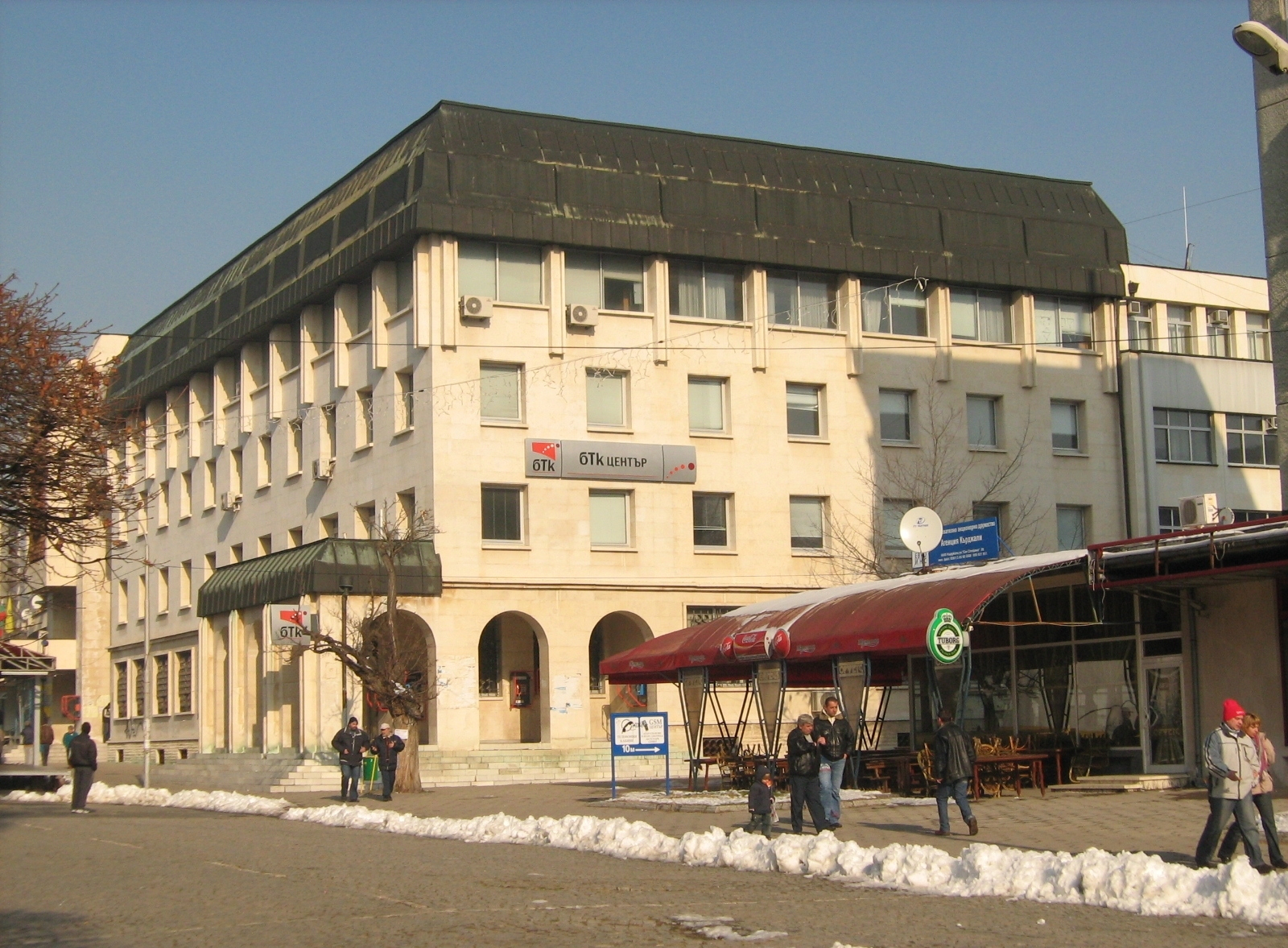 Kardzhali, Bulgaria